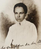 Anna Hedvig Büll (born Anna Hedwig Bühl, 4 February [O.S. 23 January] 1887 – 3 October 1981) was an Estonian missionary of Baltic German extraction who helped to save the lives of several thousand Armenian orphans during the Armenian Genocide.